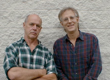 Geoffrey Lewis and Geoff Levi